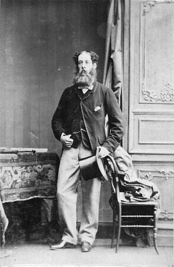 Henry Paget, 4th Marquess of Anglesey (1835–1898)